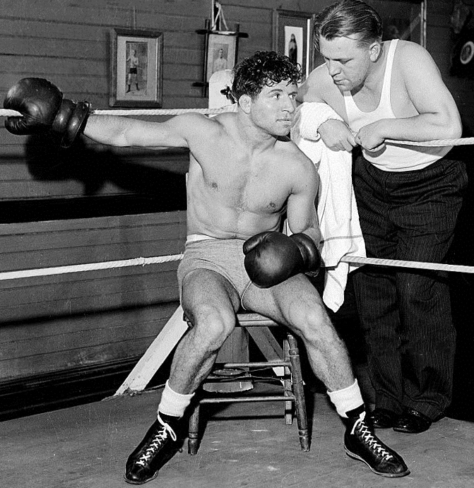 Visiting Dutch boxer, Bep van Klaveren, taking a training session at a spa in Coogee, 30 November 1935. SMH NEWS Picture by NUTT